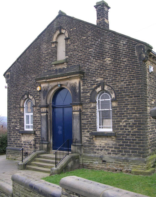 Former Moravian Sunday School, Pudsey, West Yorkshire, England. Now used as a part of Fulneck School as a Music, Speech and Drama Centre